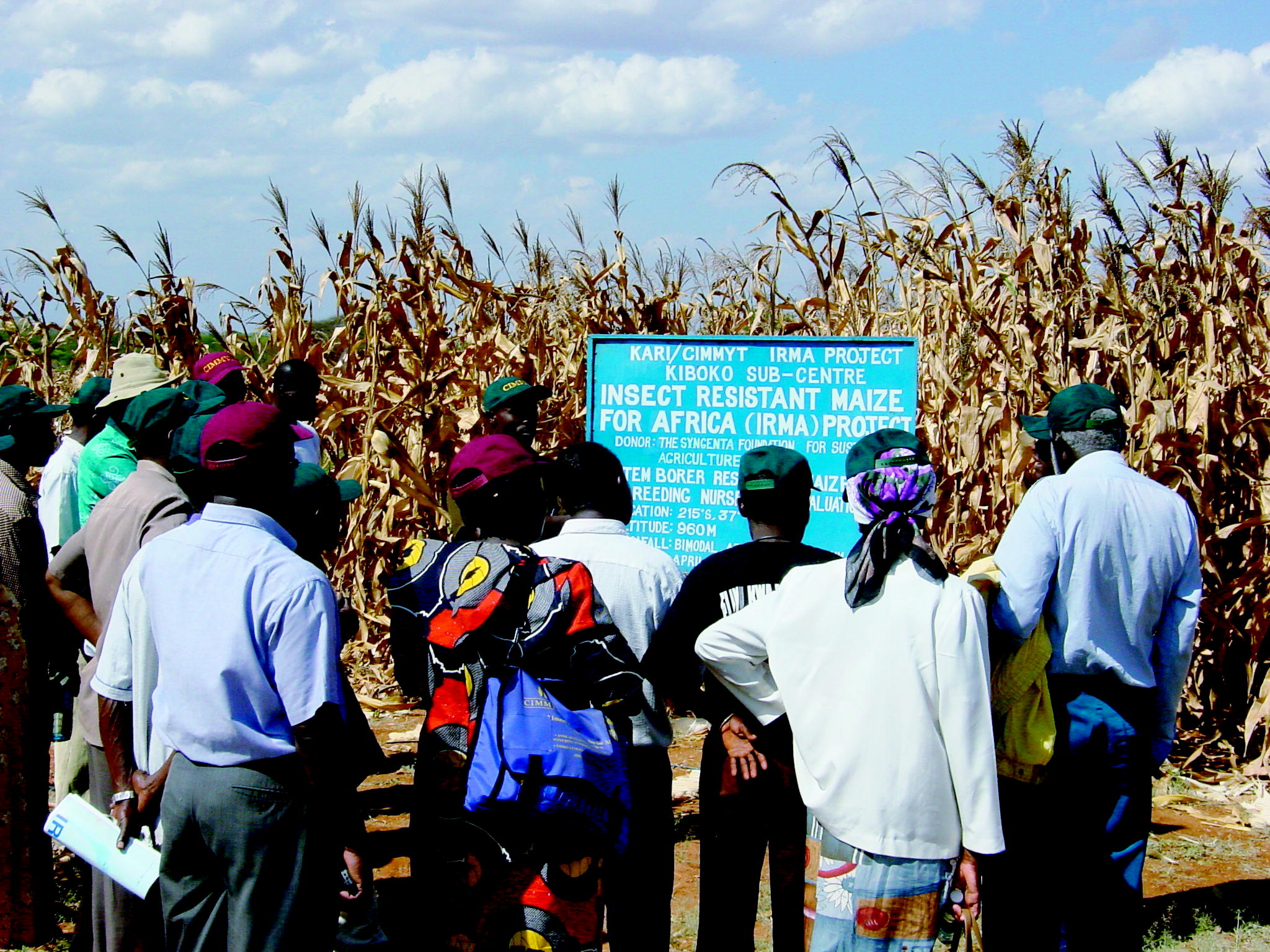 In an effort to reduce corn stem-borer infestations, corporate and public researchers partner to develop local [transgenic] Bt (Bacillus thuringiensis) corn varieties suitable for Kenya.